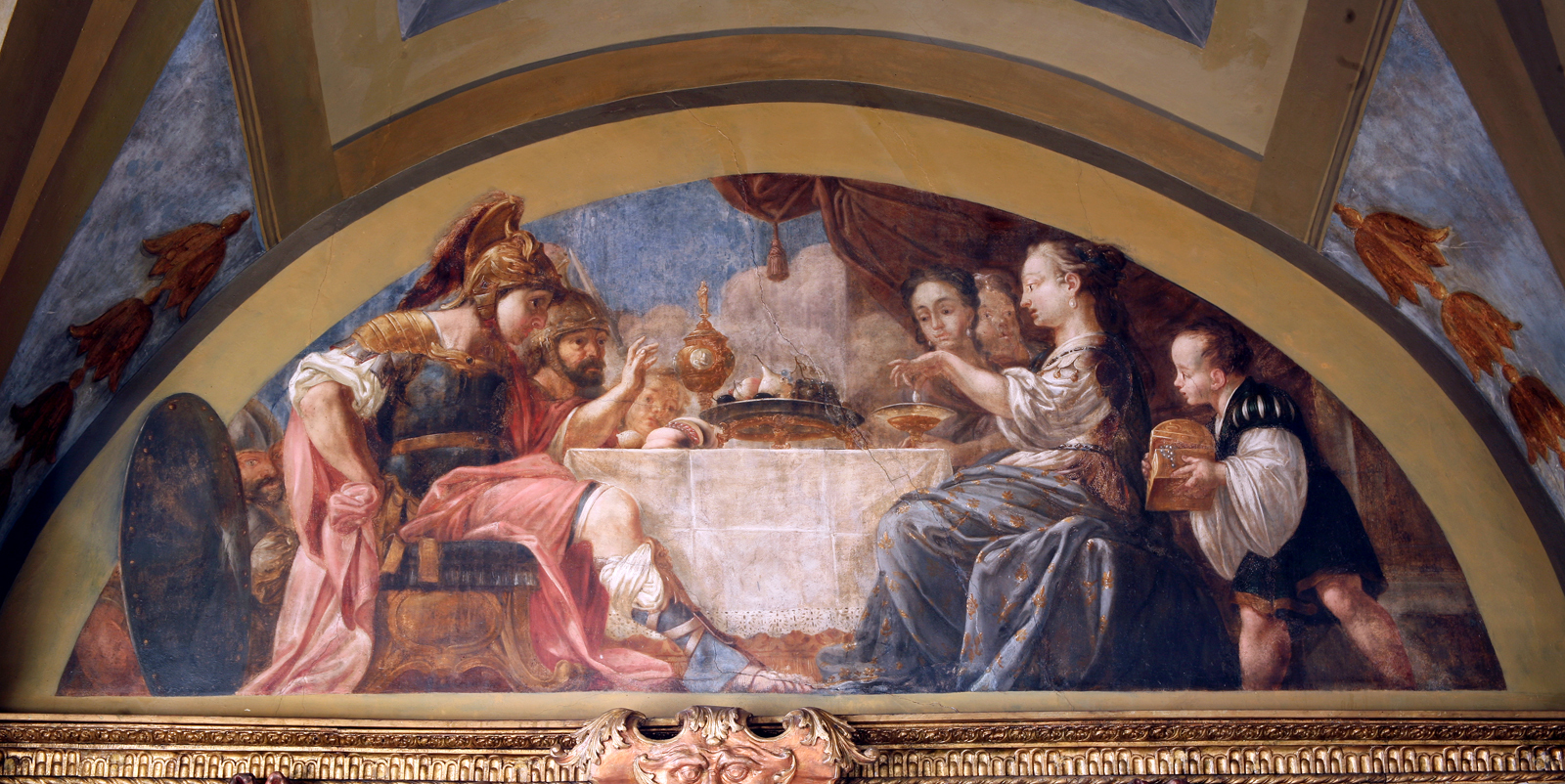 Václav Jindřich Nosecký and Michael Václav Halbax, Feast of Antonius and Cleopatra, Zákupy Castle